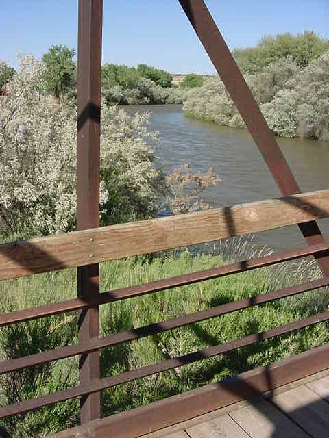 The Animas River as seen from a foot bridge in Farmington, New Mexico.